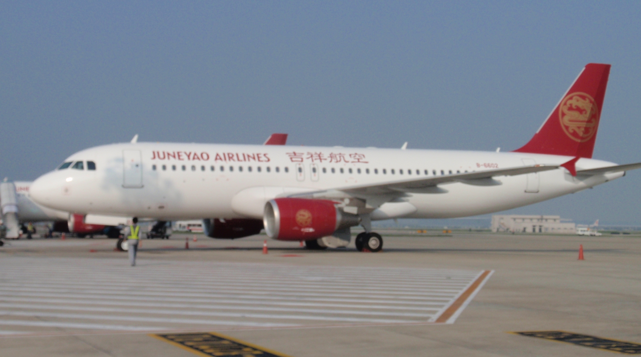 Juneyao Airlines A320 at Shanghai Pudong International Airport 中文（中国大陆）: 吉祥航空A320飞机 中文（香港）: 吉祥航空A320飛機在上海浦東國際機場